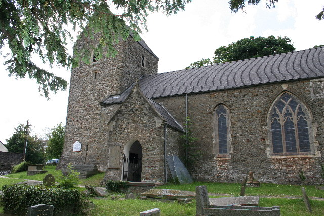 St Barrwg's Church Bedwas. ST1789 3 of 4, Side View